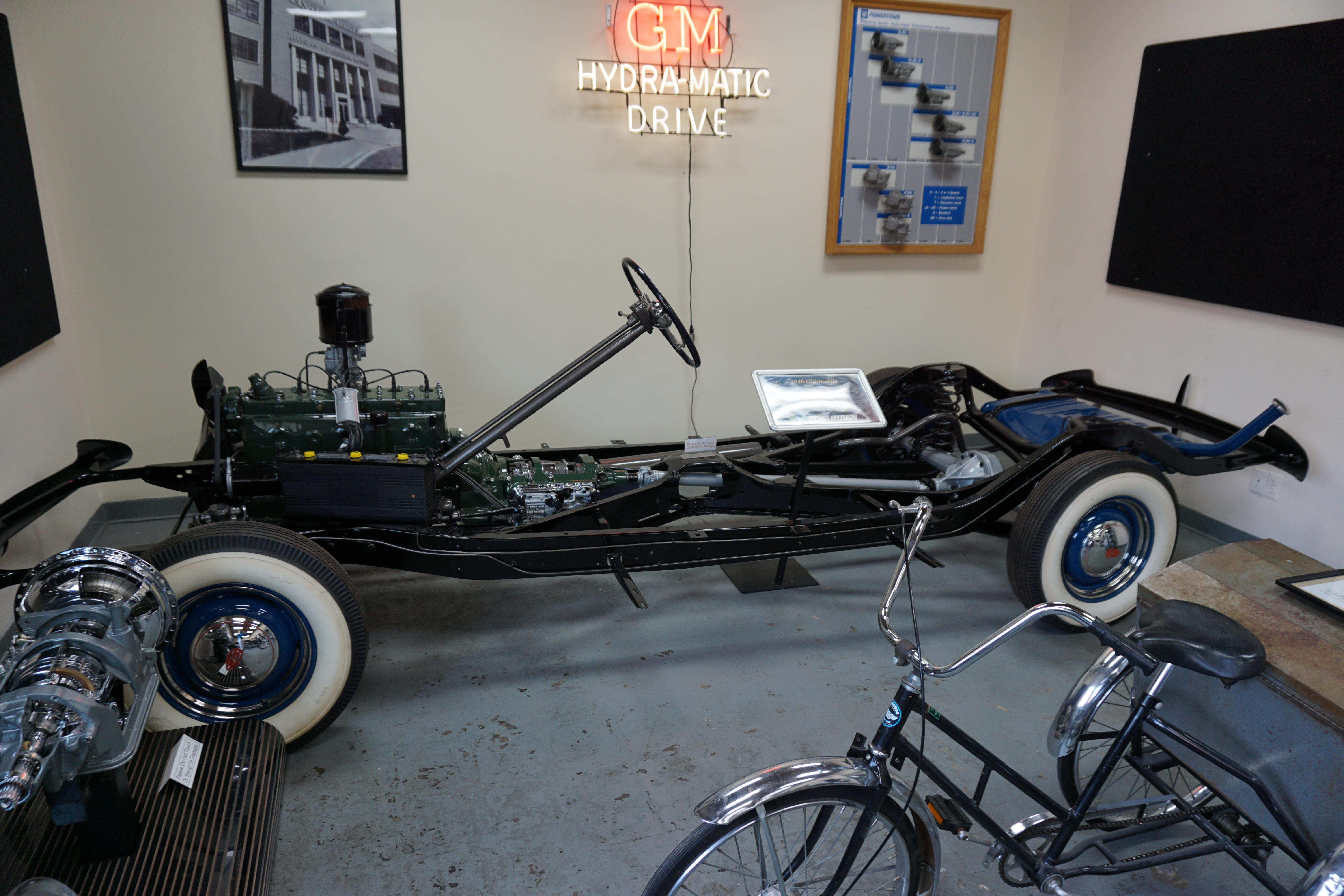 A 1940 Oldsmobile powertrain at the Ypsilanti Automotive Heritage Museum in Ypsilanti, Michigan (United States).